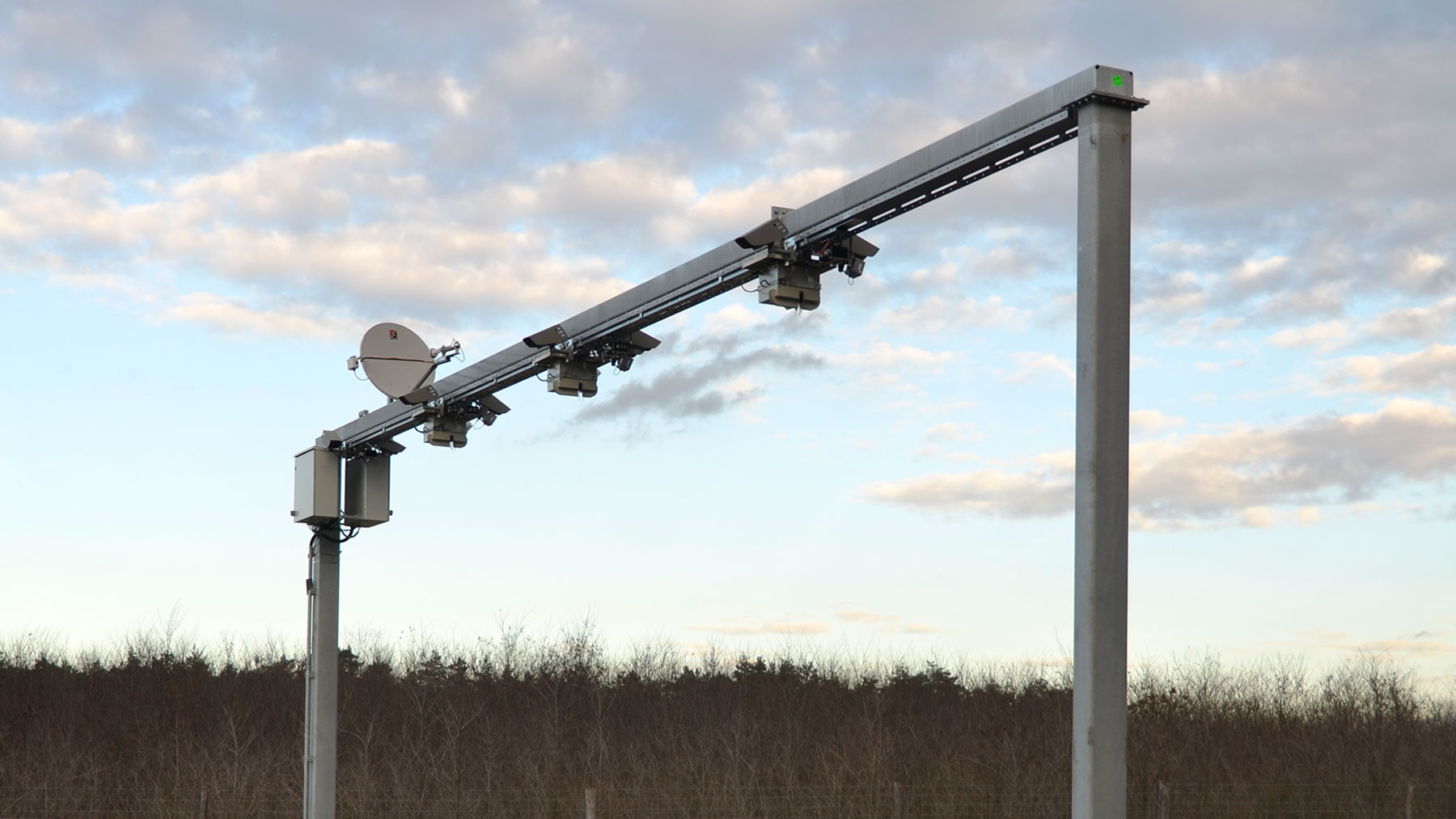 Single gantry traffic management assembly with communication and data processing components used in the Hungarian highway network.